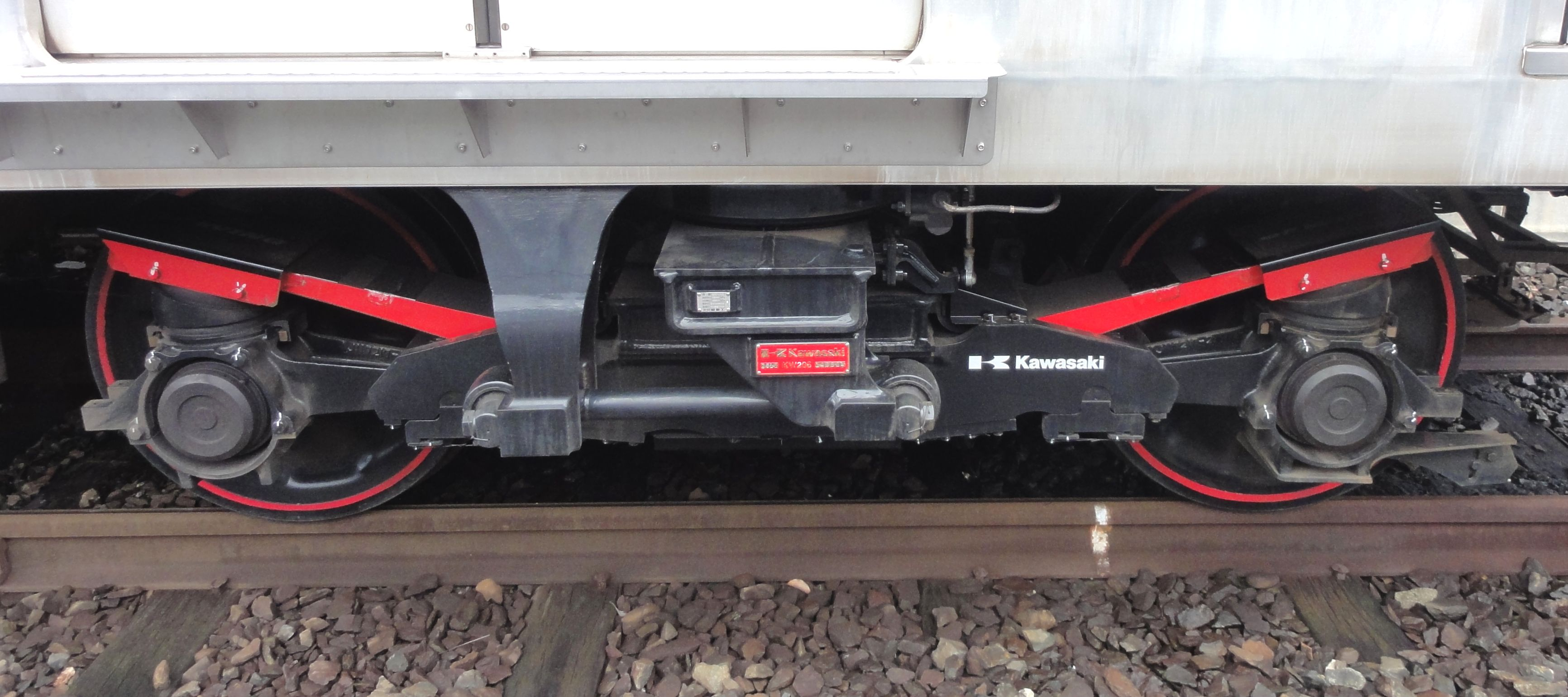 A Kawasaki Heavy Industries KW206 "efWing" bogie on a Kumamoto Electric Railway 01 series 2-car EMU